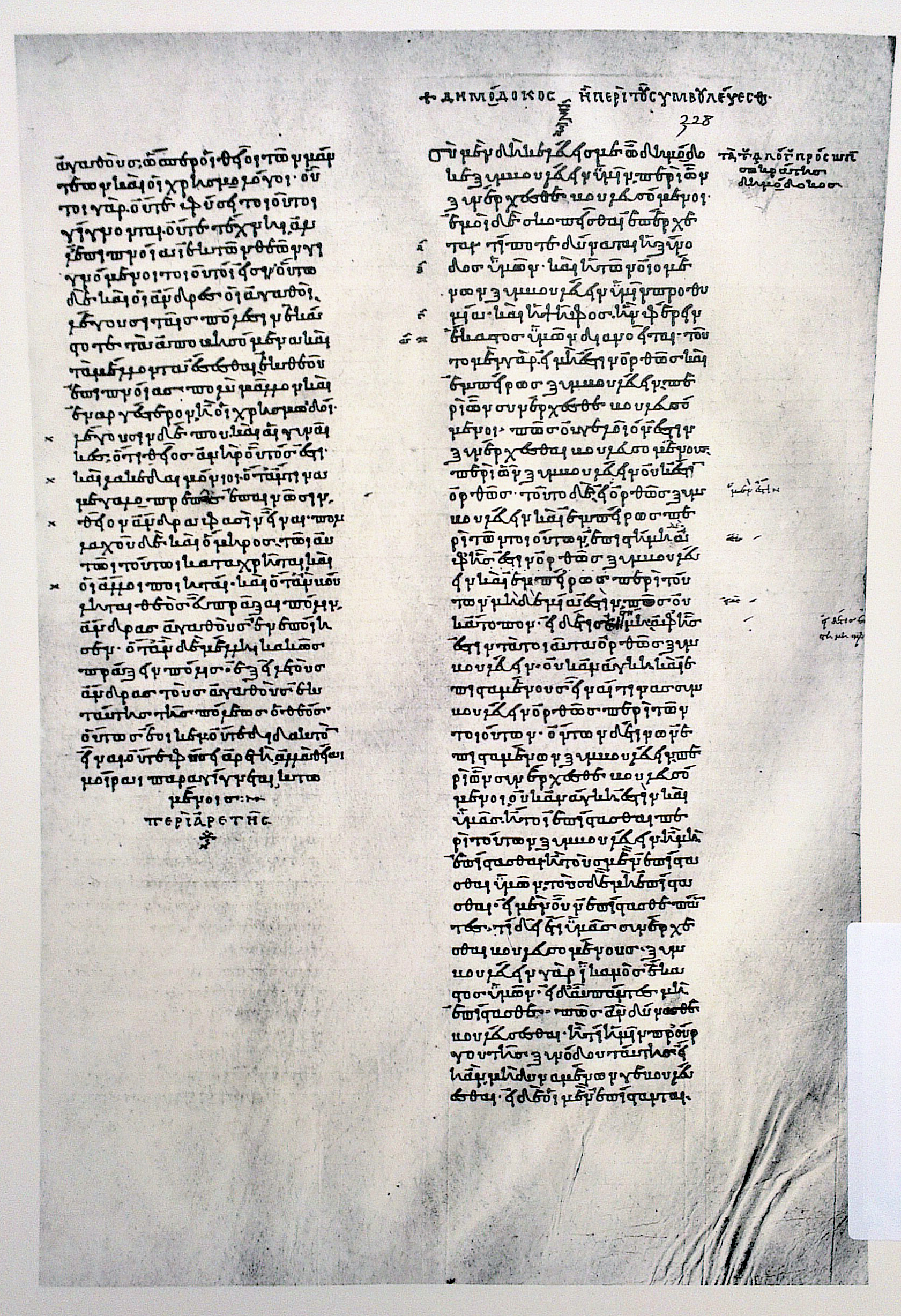 Page of the Codex Parisinus graecus 1807. Dialogue Demodokos.